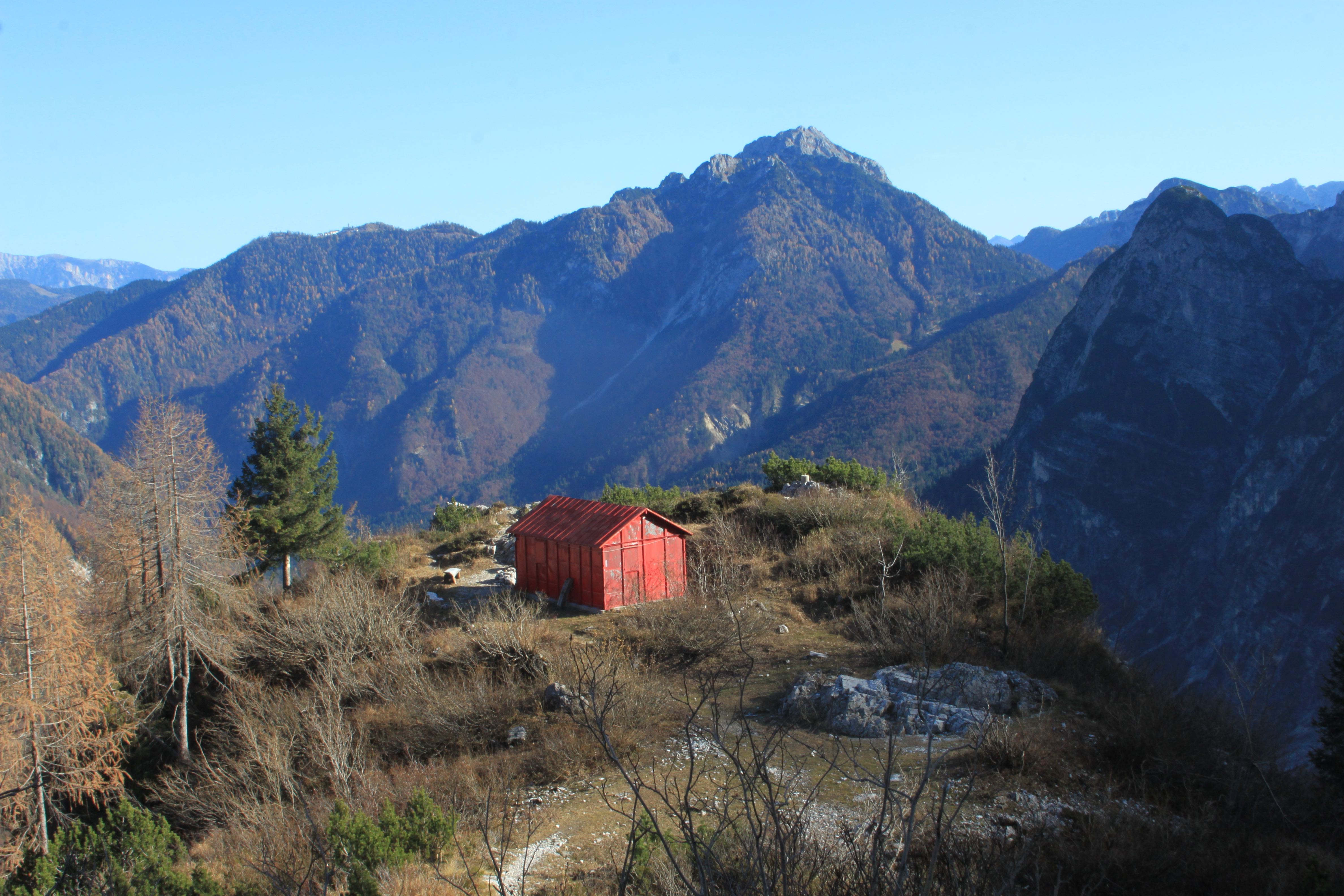 Bivouac Carlo & Giani Stuparich, 1,578m, with Cima del Cacciatore, Julian Alps, Italy.